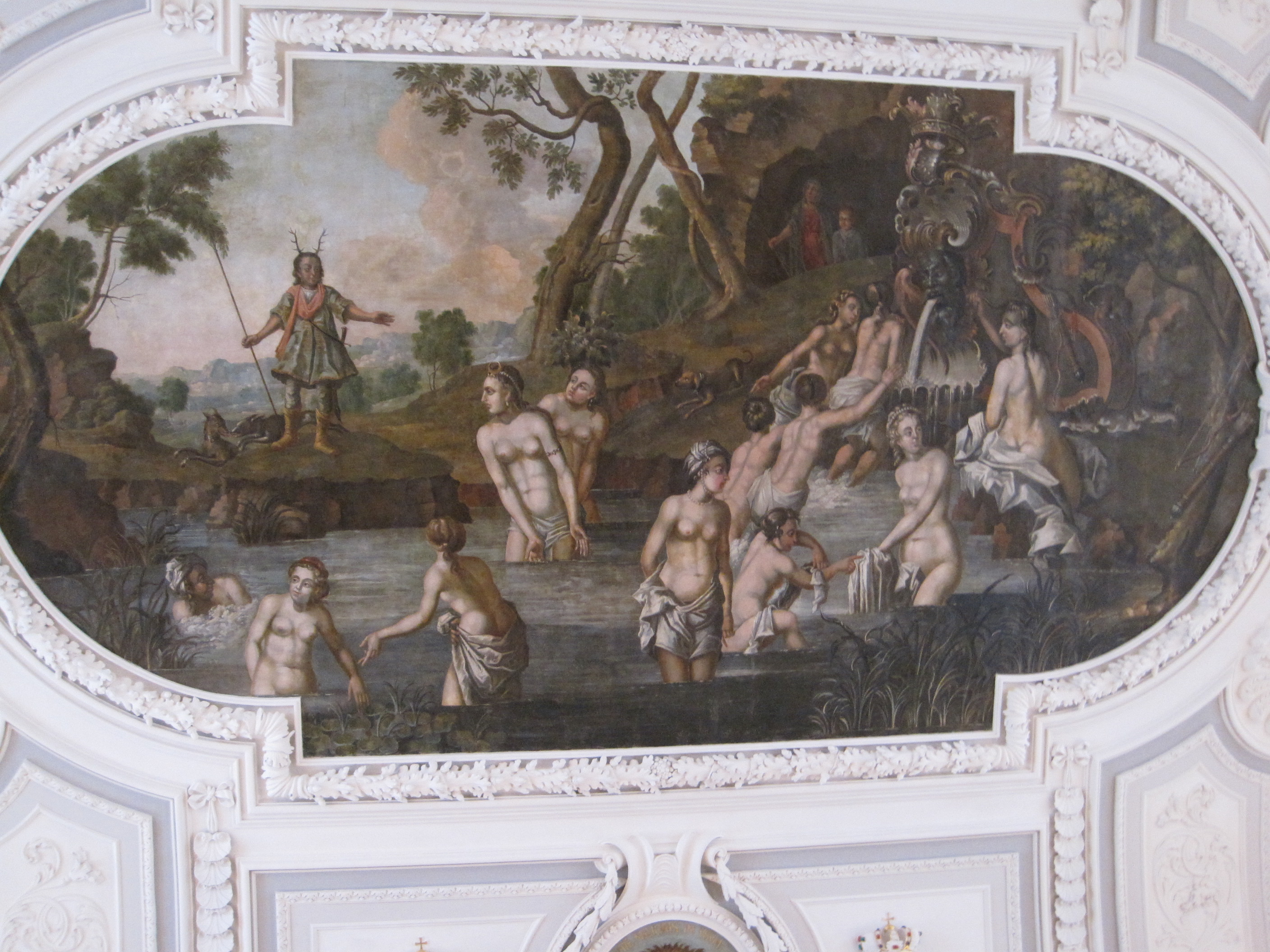 Ceiling in main hall.